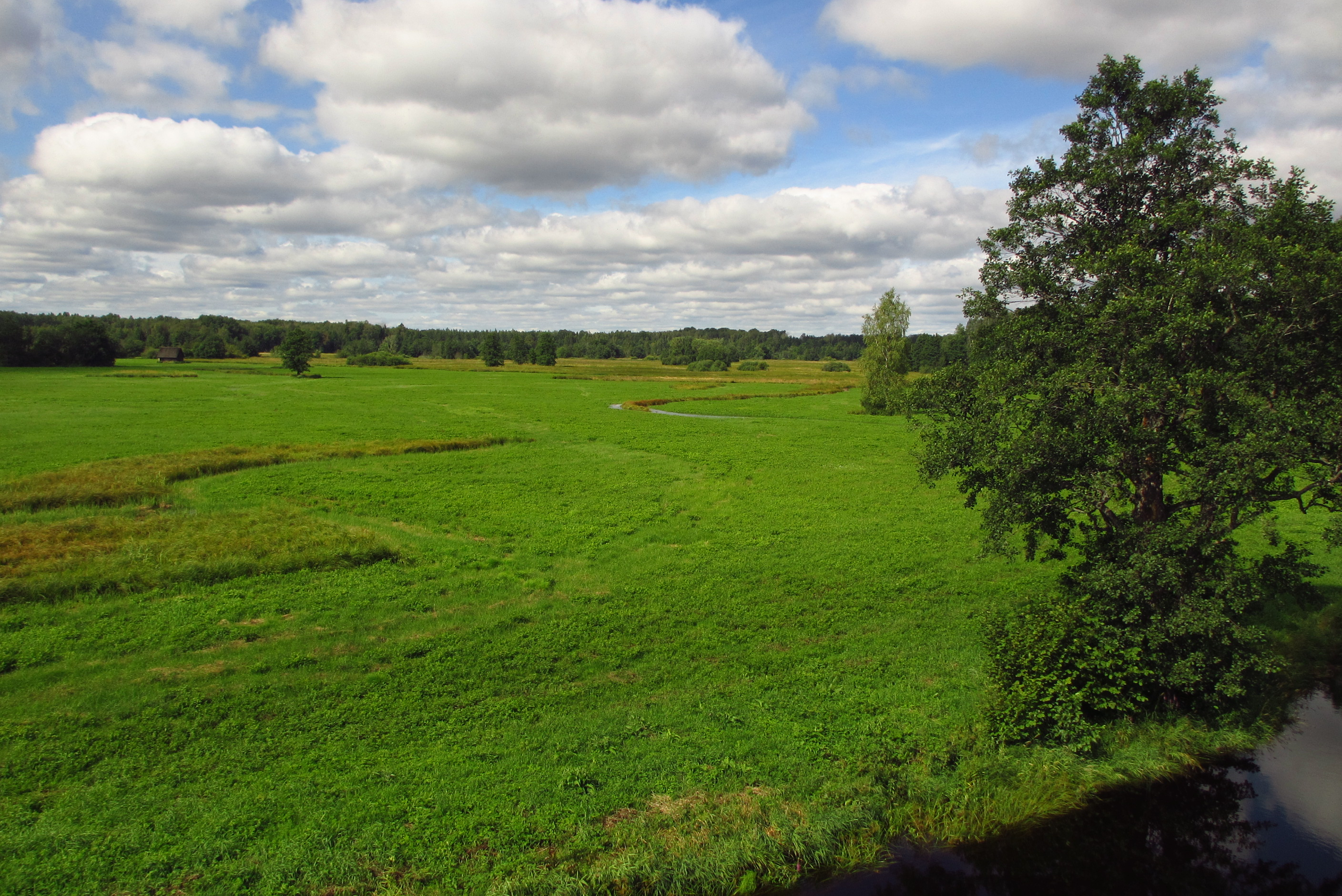 Läti luht Soomaa rahvuspargis, vaade tornist